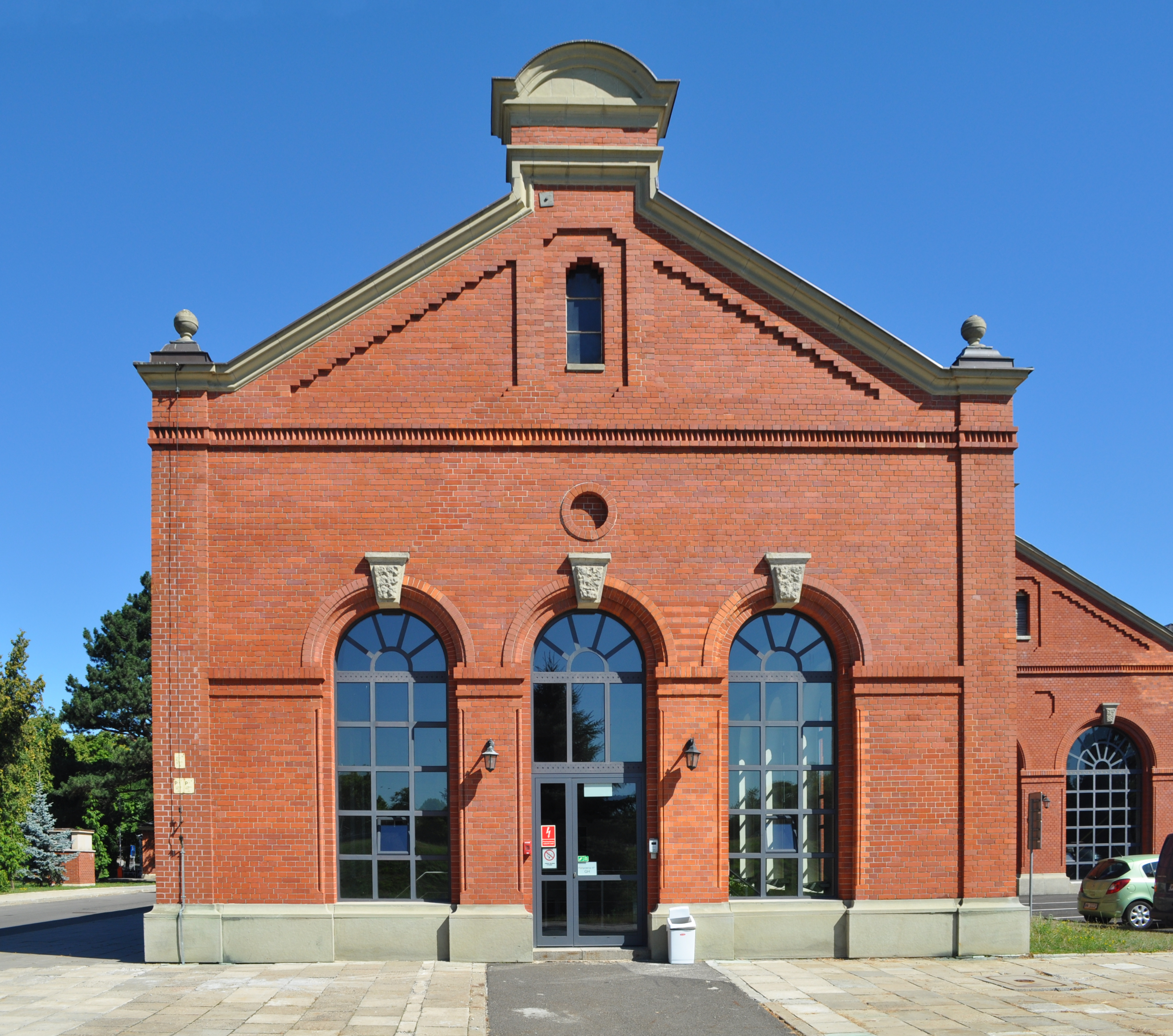 Warsaw Water Filters